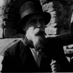 Celestino Petray- actor